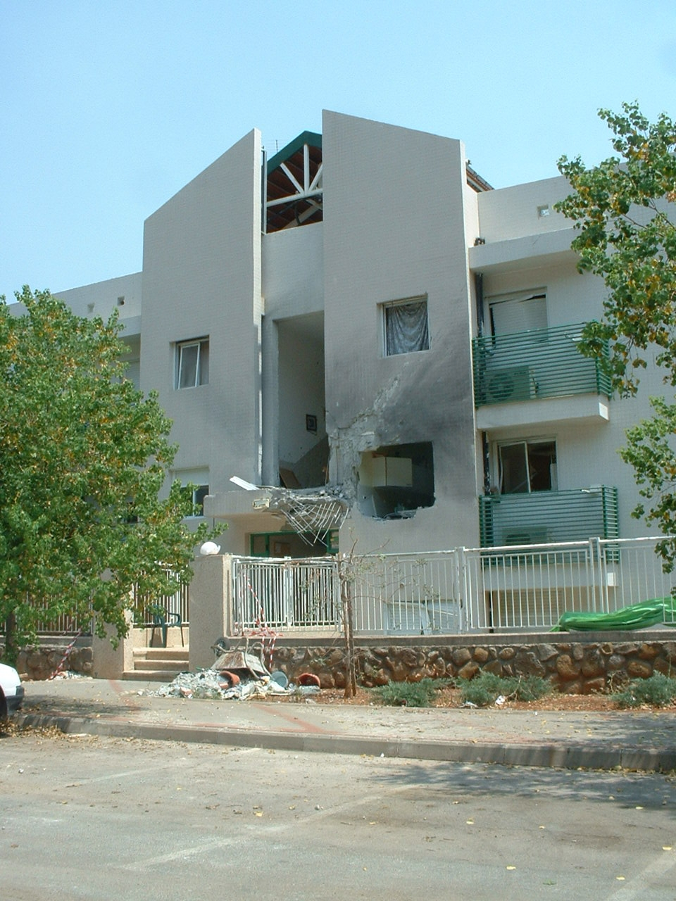 Residential building in Kiryat Shmona, Israel, damaged by a rocket strike in the Second Lebanon War